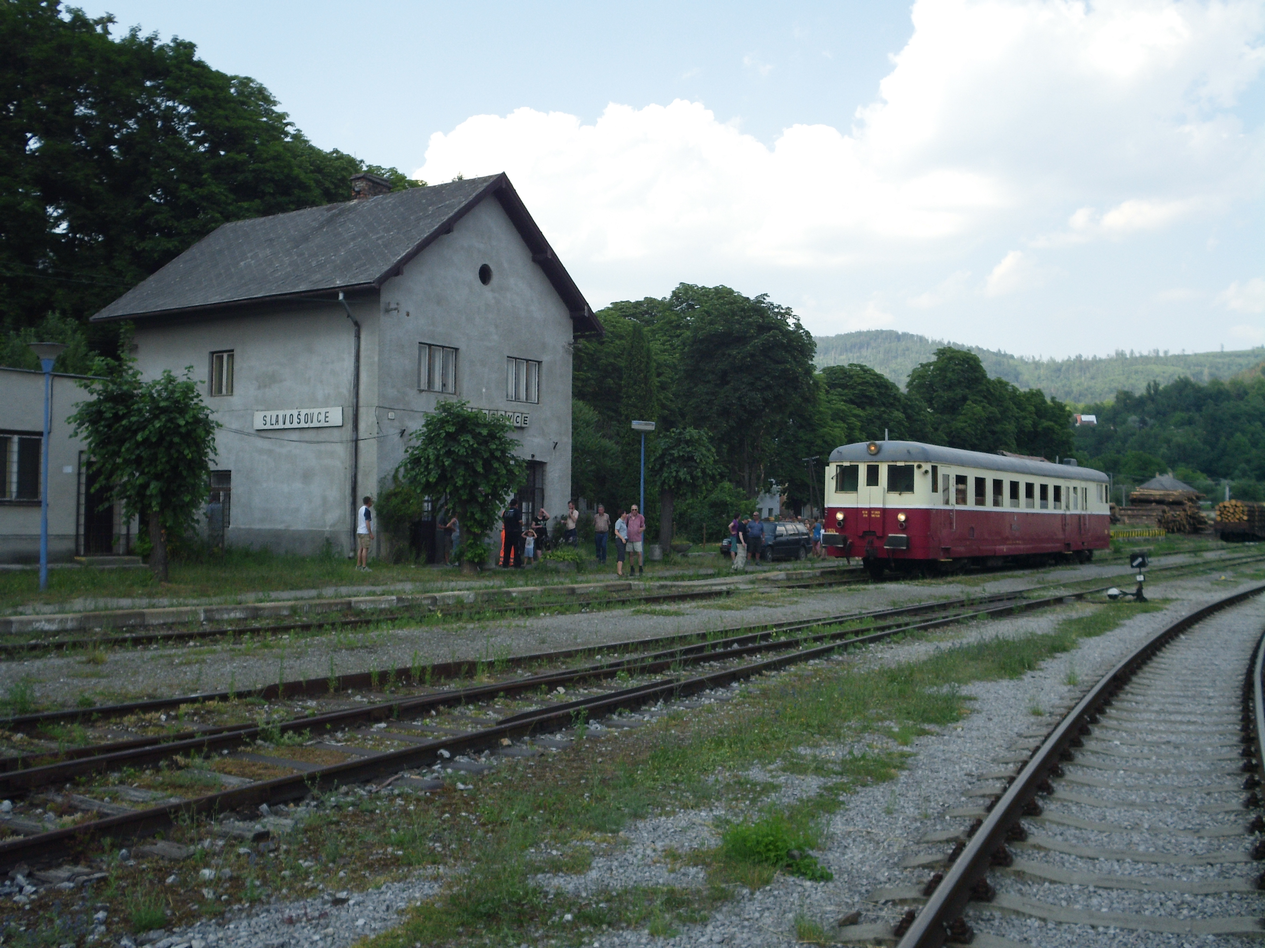 An M262-class railcar of KŽC Doprava at a train staion in Slavošovce, Slovakia, a terminus of a route from Plešivec. It was organized for a tourist trip.